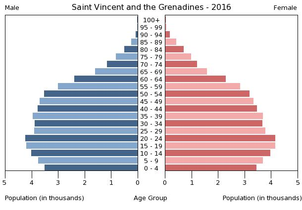 The population pyramid of Saint Vincent and the Grenadines illustrates the age and sex structure of population and may provide insights about political and social stability, as well as economic development. The population is distributed along the horizontal axis, with males shown on the left and females on the right. The male and female populations are broken down into 5-year age groups represented as horizontal bars along the vertical axis, with the youngest age groups at the bottom and the oldest at the top. The shape of the population pyramid gradually evolves over time based on fertility, mortality, and international migration trends.